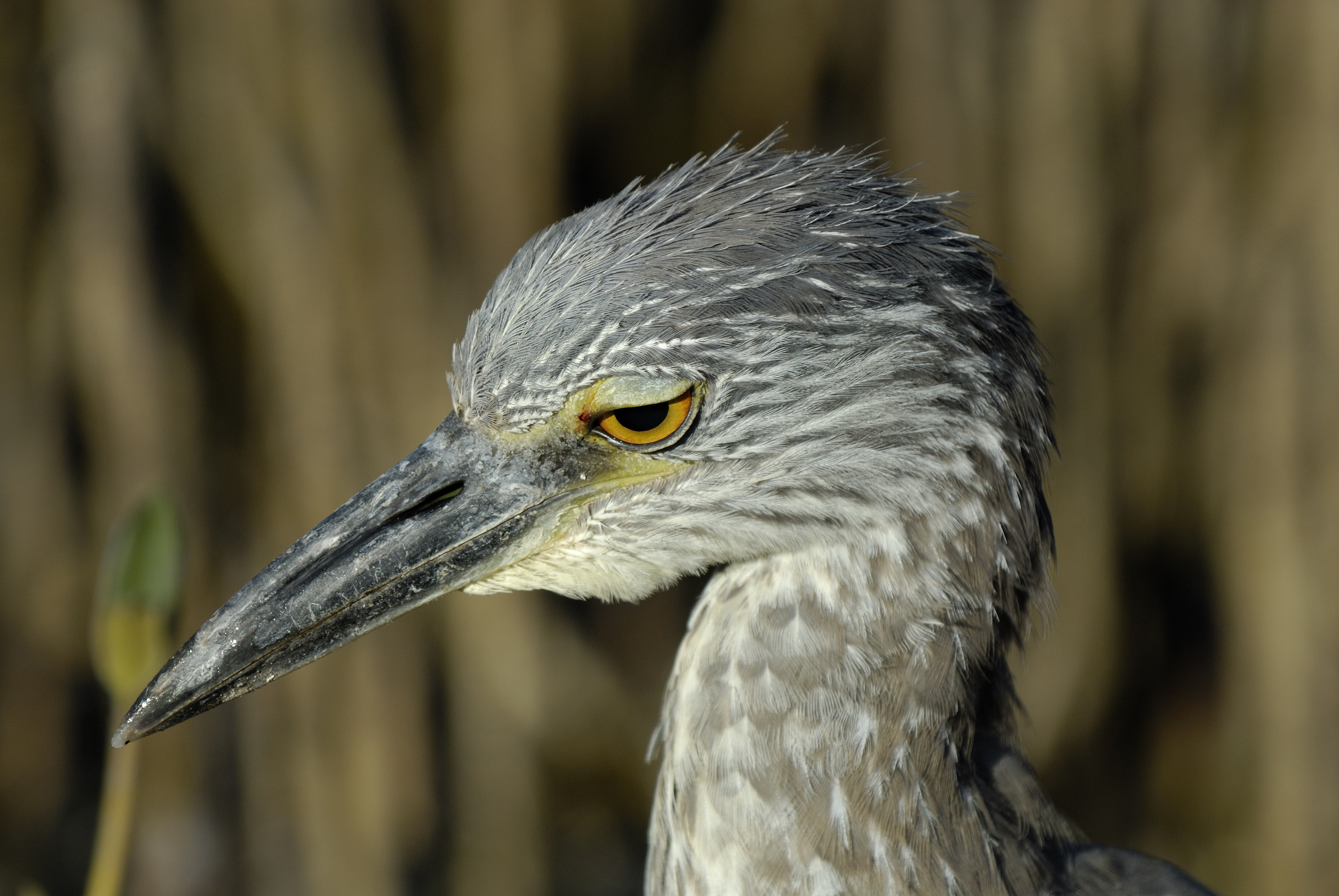 Yellow-crowned Night Heron (Nyctanassa violacea), immature 'Ding' Darling National Wildlife Refuge Sanibel Island